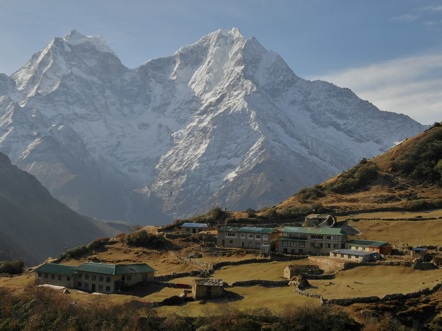 Dole (Khumbu, Nepal) between Namche Bazar and Gokyo. Kangtega and Thamserku in the background .